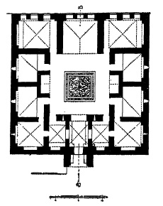 Qaymari Bimarstan in Syria map